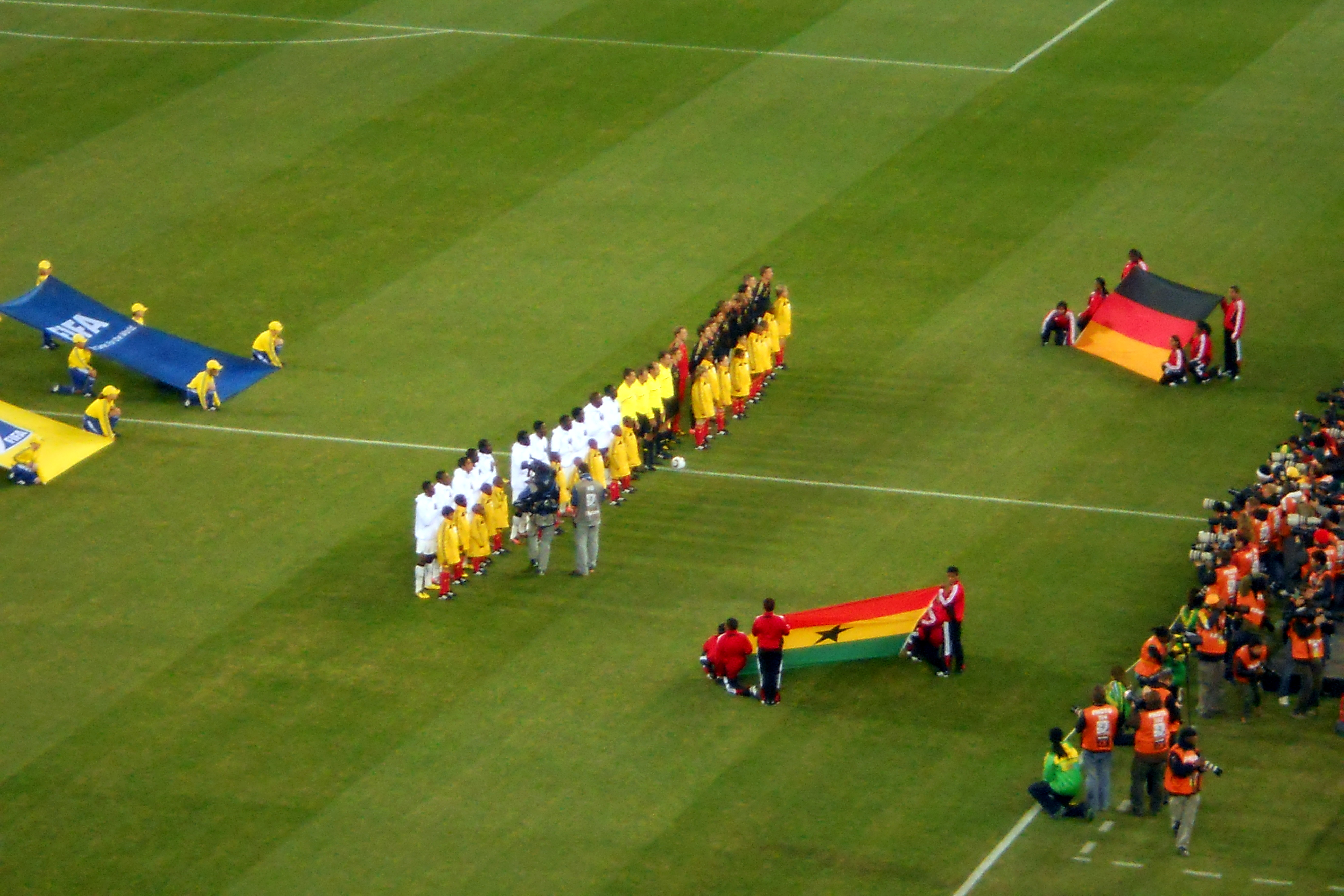 Teams on the pitch before the kick-off of the game between Ghana and Germany at FIFA World Cup 2010, 19 June 2010, Soccer City, Johannesburg